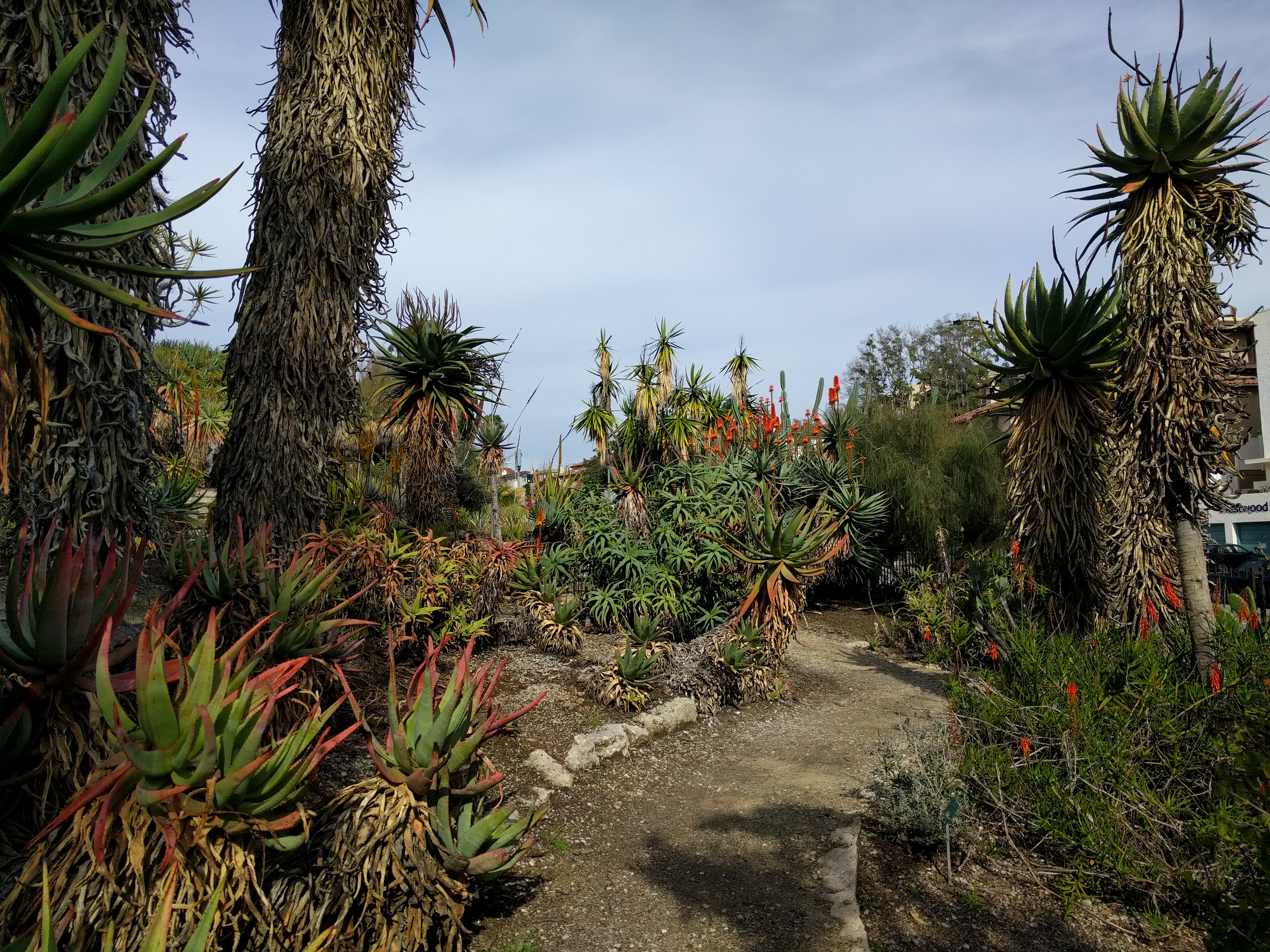 Many Aloe species. Mildred E. Mathias Botanical Garden, UCLA, California.